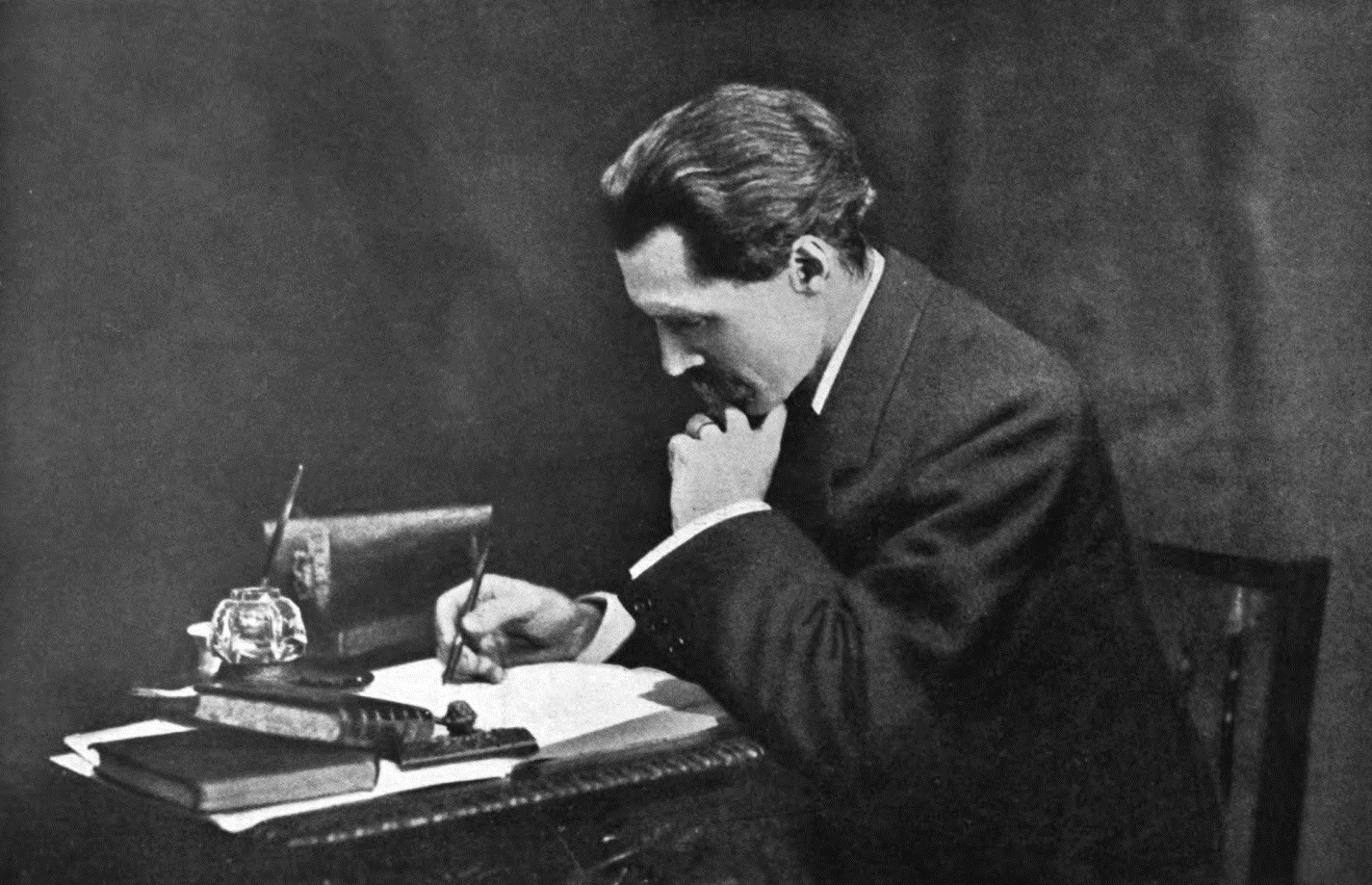 Portrait of George Gissing at Desk